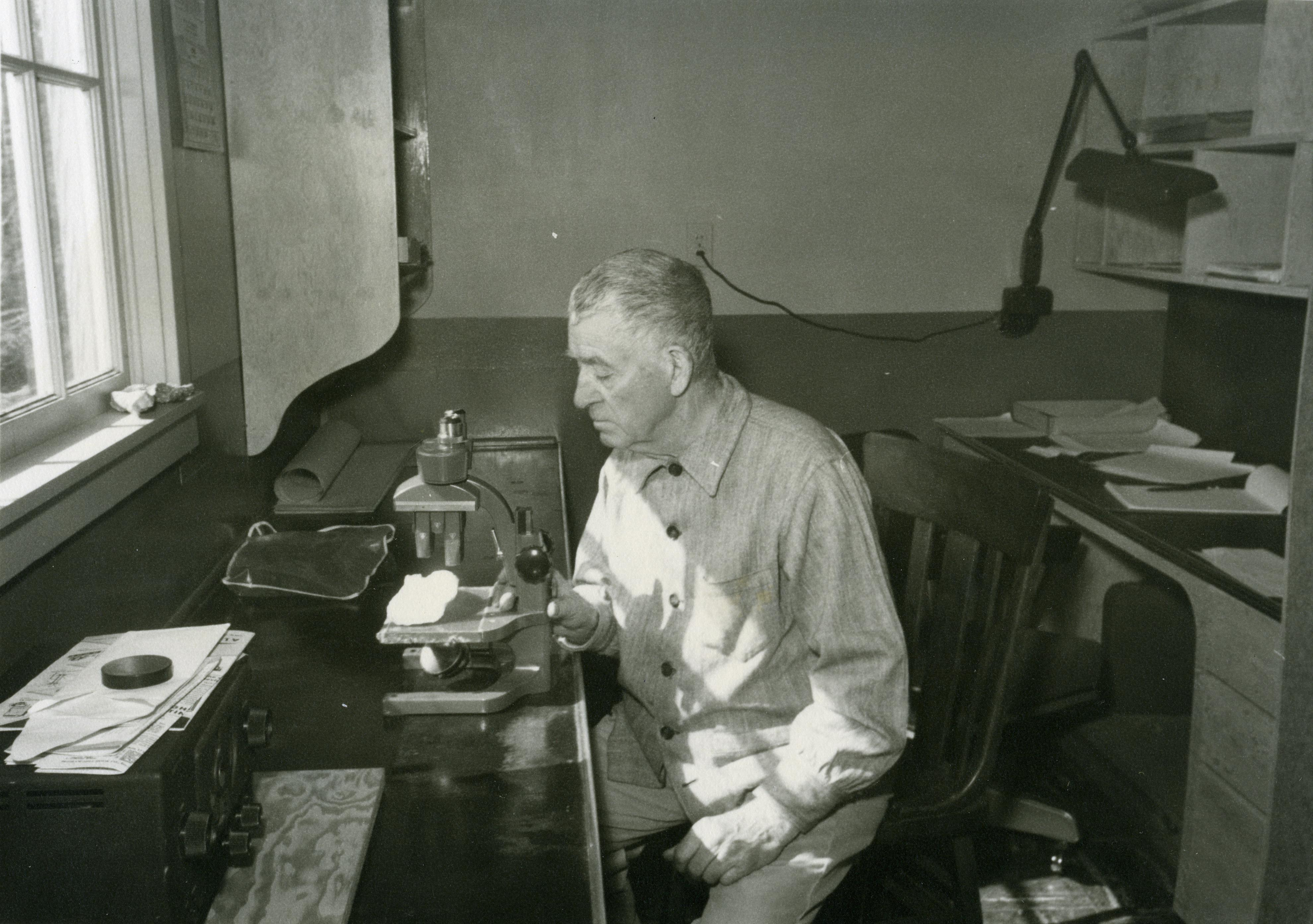 Trevor Kincaid c. 1950 Other information "This is a public domain web site. The information on this site is not copyrighted. You may use, share or copy such information appearing on this site. Of course, it would be appropriate to give credit to the Office of the Secretary of State as the source of this information."